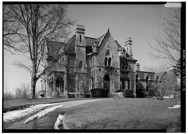 5. SOUTH ELEVATION FROM SOUTHWEST. Cornell University, Llenroc, 100 Cornell Avenue, Ithaca, Tompkins County, NY